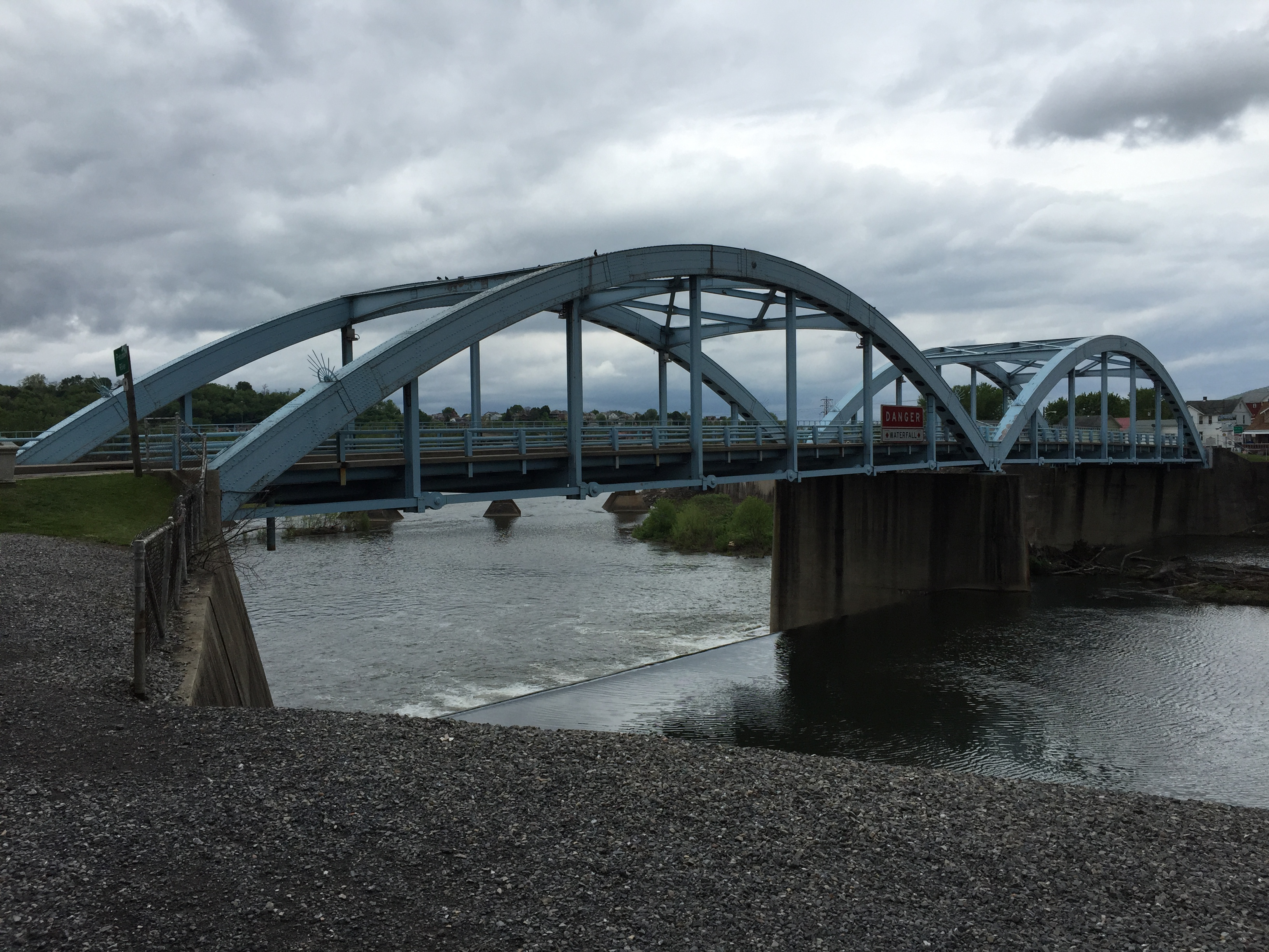 View of the Blue Bridge (Maryland State Route 942) connecting Cumberland, Allegany County, Maryland to Ridgeley, Mineral County, West Virginia across the North Branch Potomac River from just to the northwest in Cumberland